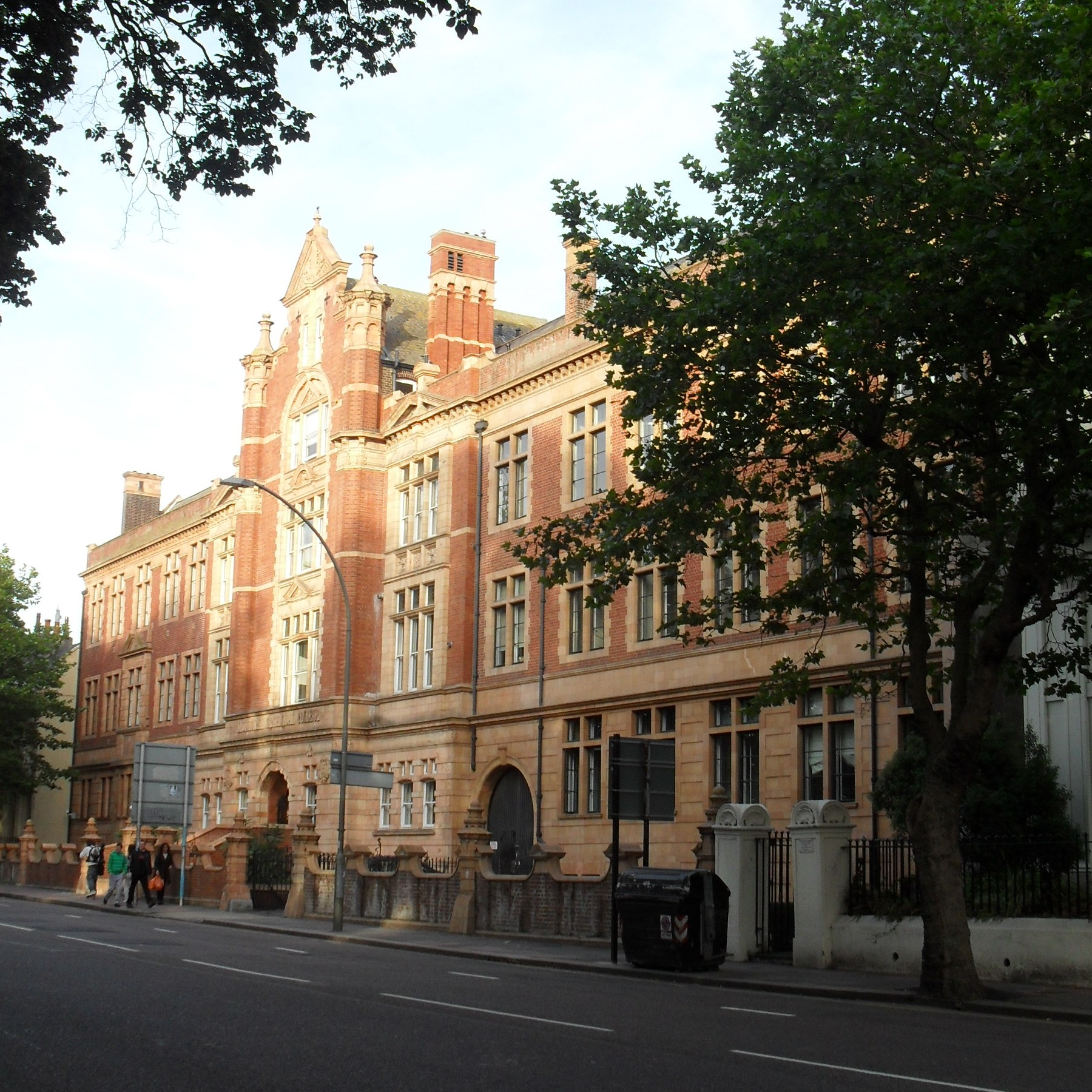 Former Brighton College of Technology, Richmond Terrace, Brighton, City of Brighton and Hove, East Sussex. Listed at Grade II by English Heritage (IoE Code 481153)